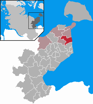 This map shows the area of the Gemeinde (municipality) Heringsdorf in the Kreis (district) Ostholstein, Schleswig-Holstein, Germany.